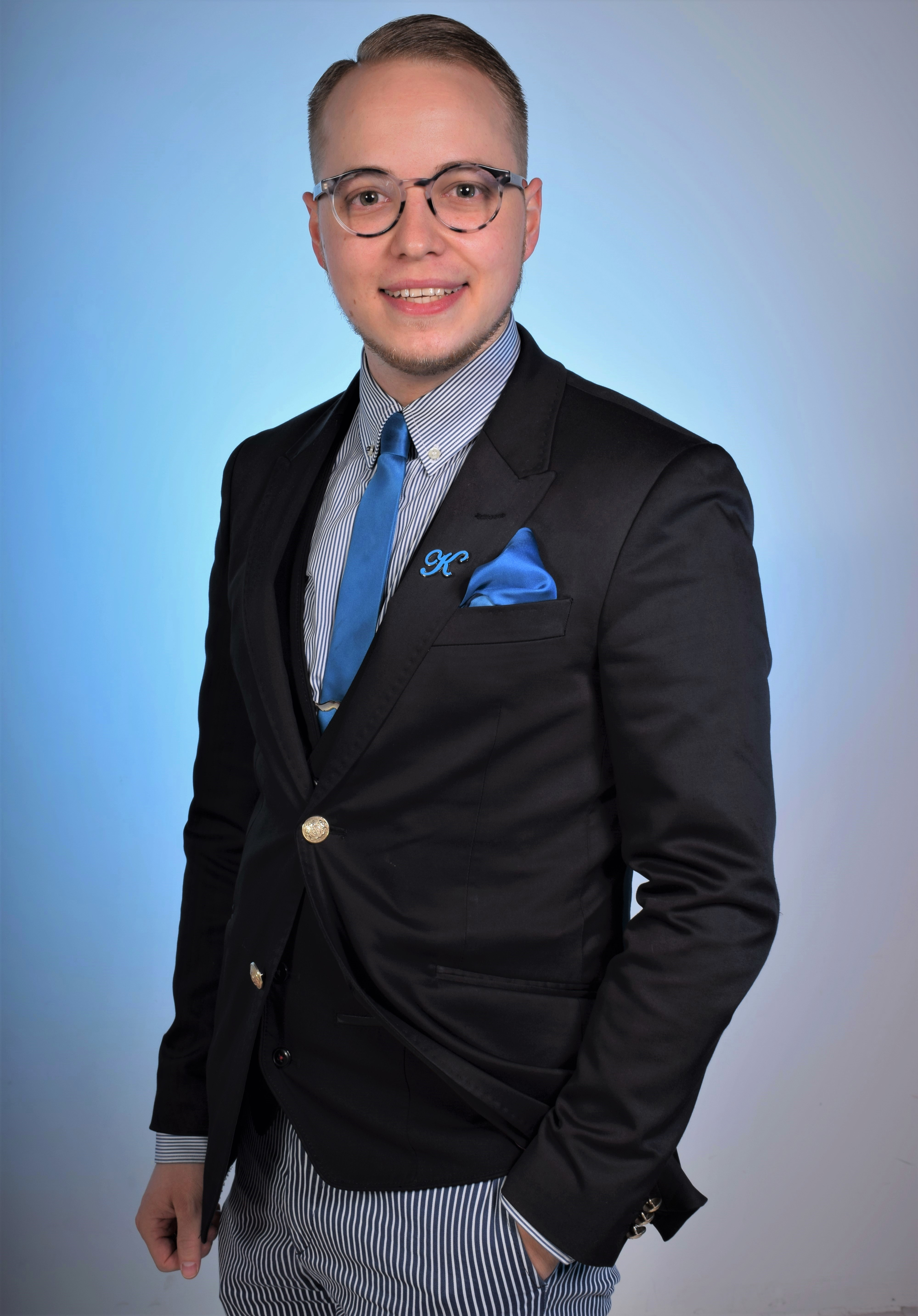 Politician Joe Thein (2013)